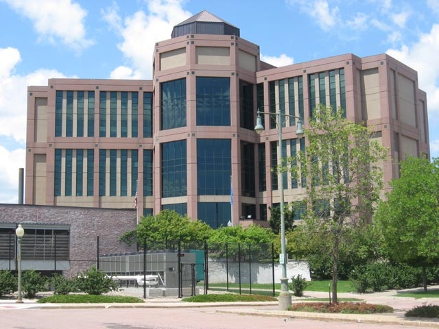 Current Minnehaha County Courthouse in Sioux Falls, South Dakota, USA. Looking northwest.